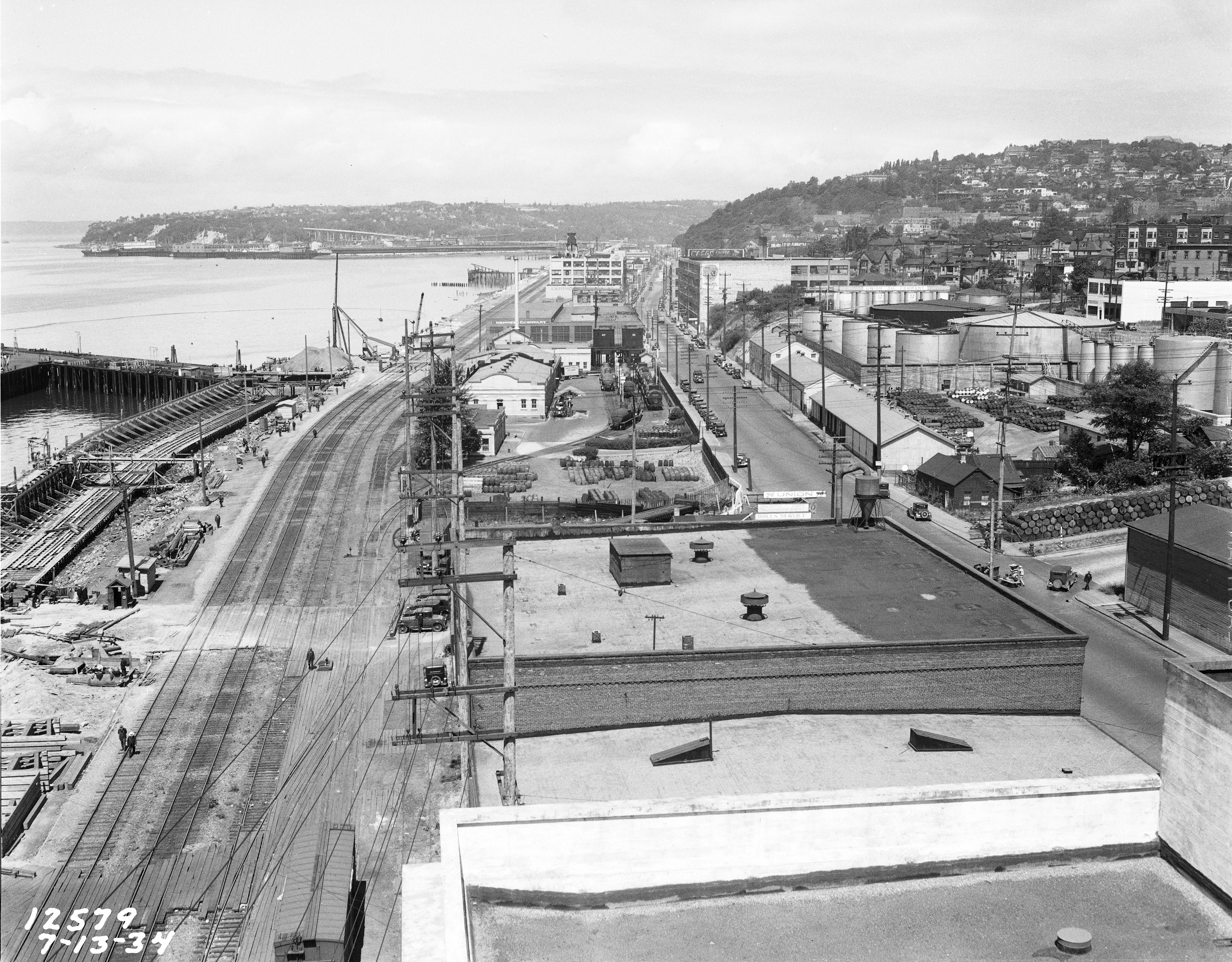 Railroad Avenue, Seattle, Washington, U.S., 1934. Taken from American Can Company building at Elliott Avenue and Cedar Street, looking roughly northwest along the shore. Shows the old Union Oil Company of California (later UNOCAL, eventually part of Chevron) facility, now site of Olympic Sculpture Park.